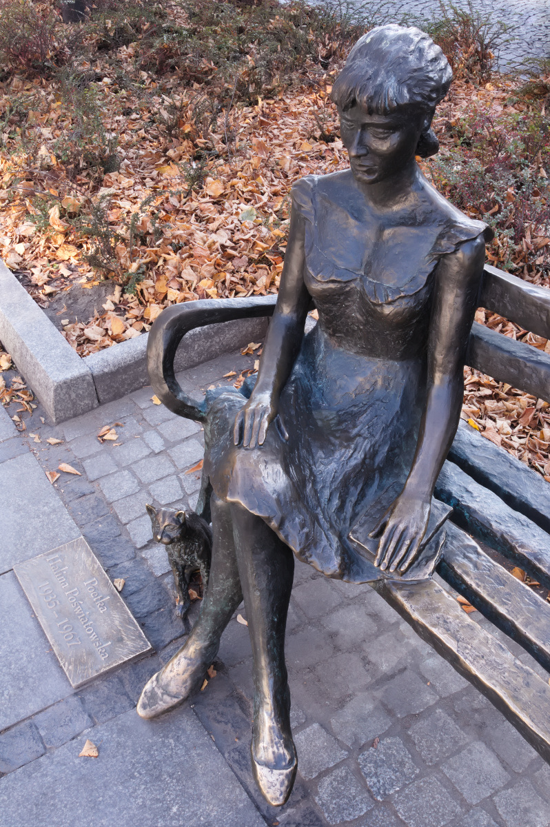 A statue of the poet Halina Poświatowska located in Częstochowa, Poland